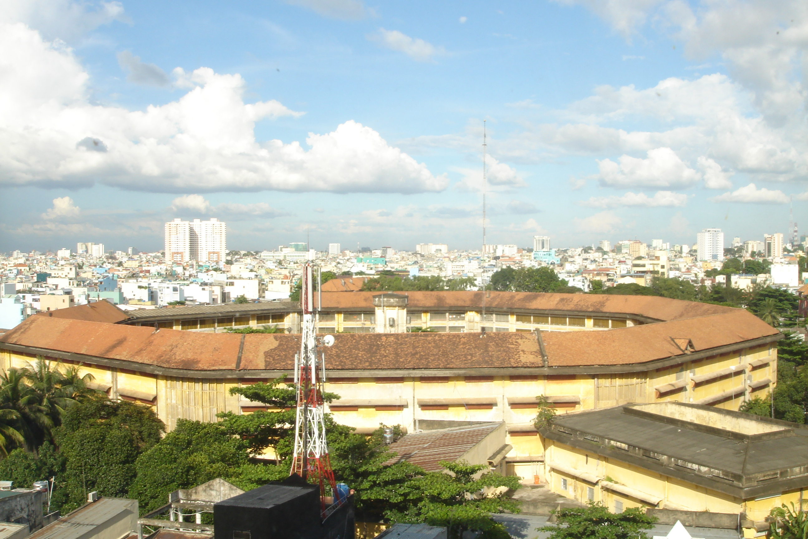 Chi Hoa Prison